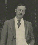 Thomas James Macnamara, statesman